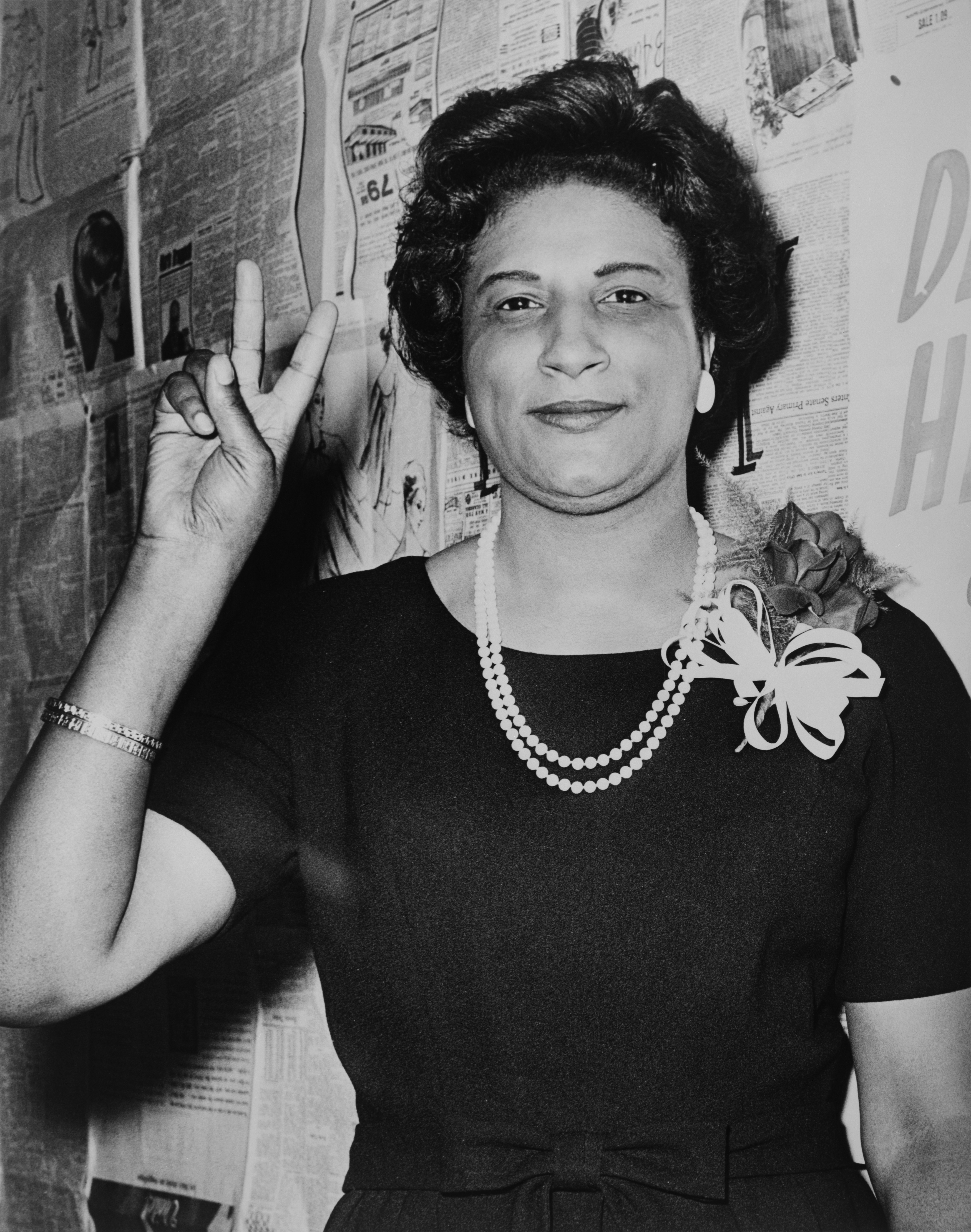 "Mrs. Constance B. Motley, first woman Senator, 21st Senatorial District, N.Y., raising hand in V sign." Photograph shows Constance Baker Motley making a victory sign two days after her election as the first African American woman to serve in the New York State Senate.